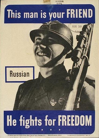 Photo of smiling Russian soldier wearing helmet, with rifle. Note: the soldier is wearing the obsolescent French-style Adrian helmet, which was already being replaced by the iconic Ssh-39 and Ssh-40.